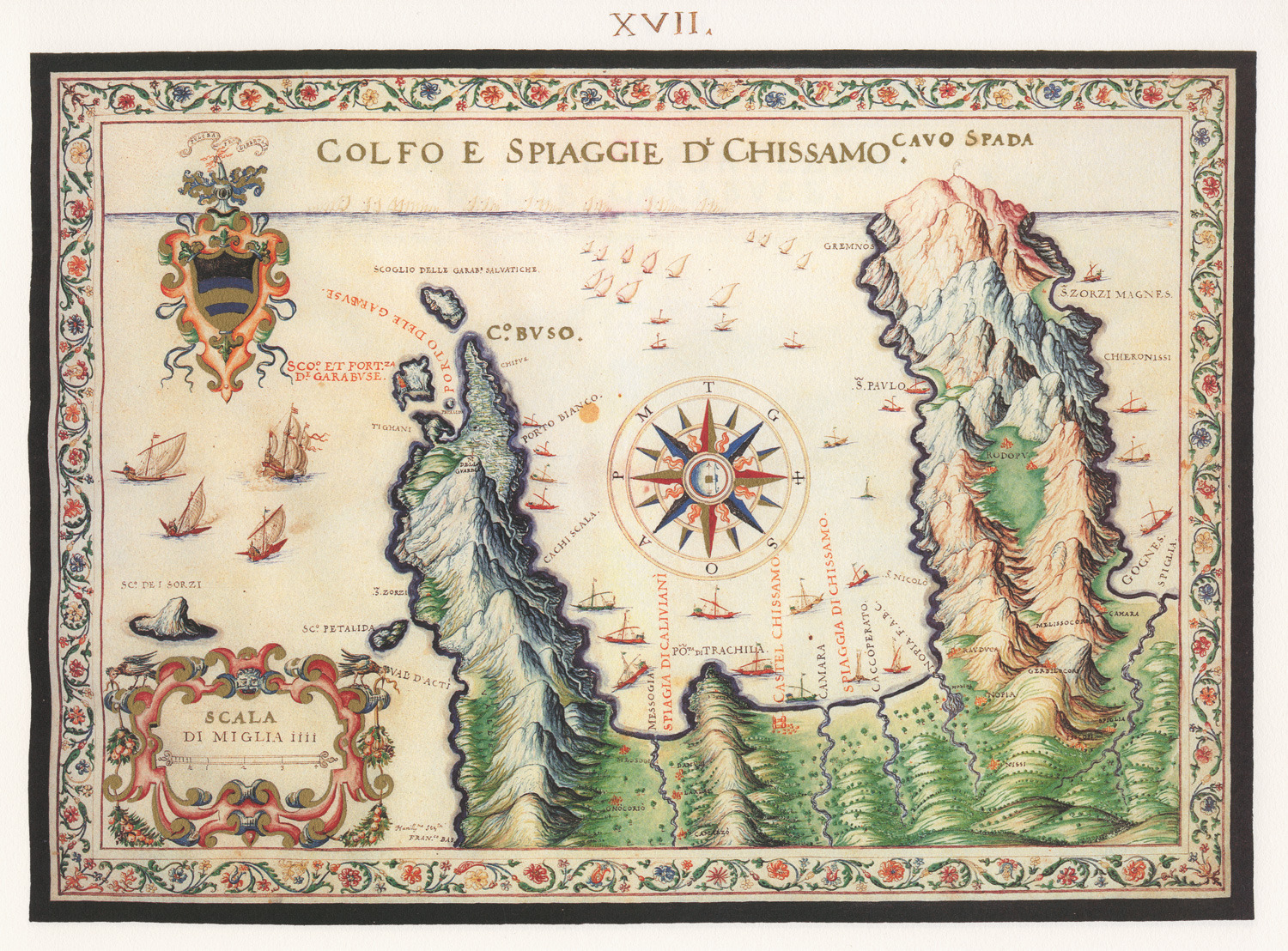 Golfo, et Spiaggie del Chissamo - Francesco Basilicata - 1618